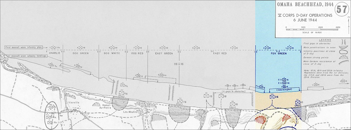 This is a treatment of the image Omaha_beachhead_6_June_1944.jpg already placed in Wikimedia Commons and used in the article Omaha Beach. I believe the source image is already GFDL licensed, and I generated this copy myself.